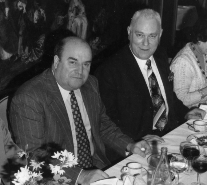 Visit of Fernand Sastre to François Jouvenet in Valenciennes